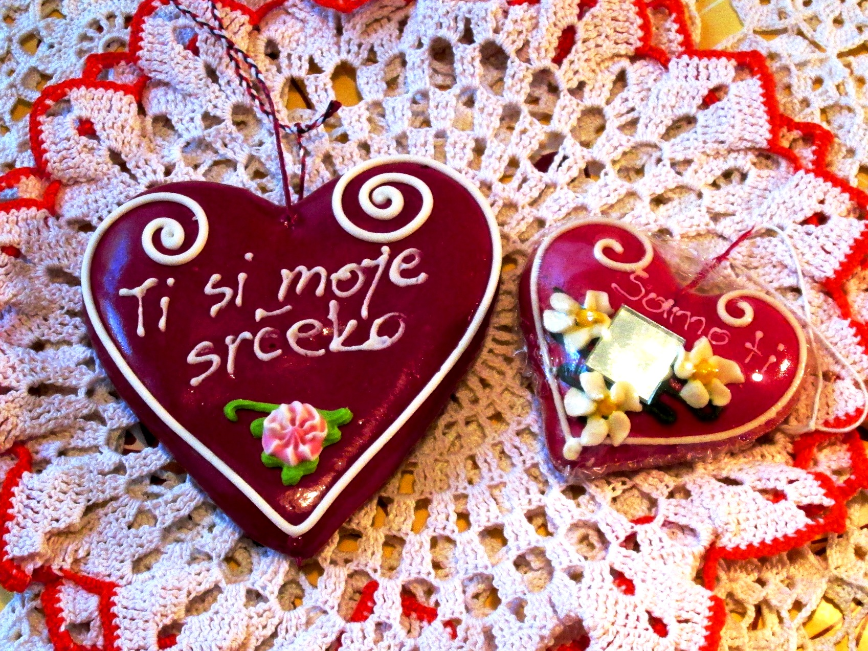 Gingerbread souvenirs, Croatia